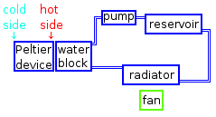 Schematic of how a Peltier element is generally used for cooling PC components (such as CPU's, ...). The Peltier element is placed directly on top of the hardware to be cooled, and the coolant is used to conduct the heat away from the hot side of the Peltier element).[1] The main advantage of the shown setup is that it allows to cool the computer component better (to much lower temperatures than what would be possible using a regular liquid cooling setup). The disadvantage however is that the Peltier element -trough its cooling action- can cause the surrounding air to condense, and this condensation (water) can cause problems on the printed circuit board.[2] Another disadvantage is that since the radiator still needs to be cooled, the setup is still not very quiet, despite allready using a Peltier element to help with the cooling. References ↑ When water just isn't cold enough ↑ Regular system combining Peltier cooler with water cooling, often gives condensation problems though